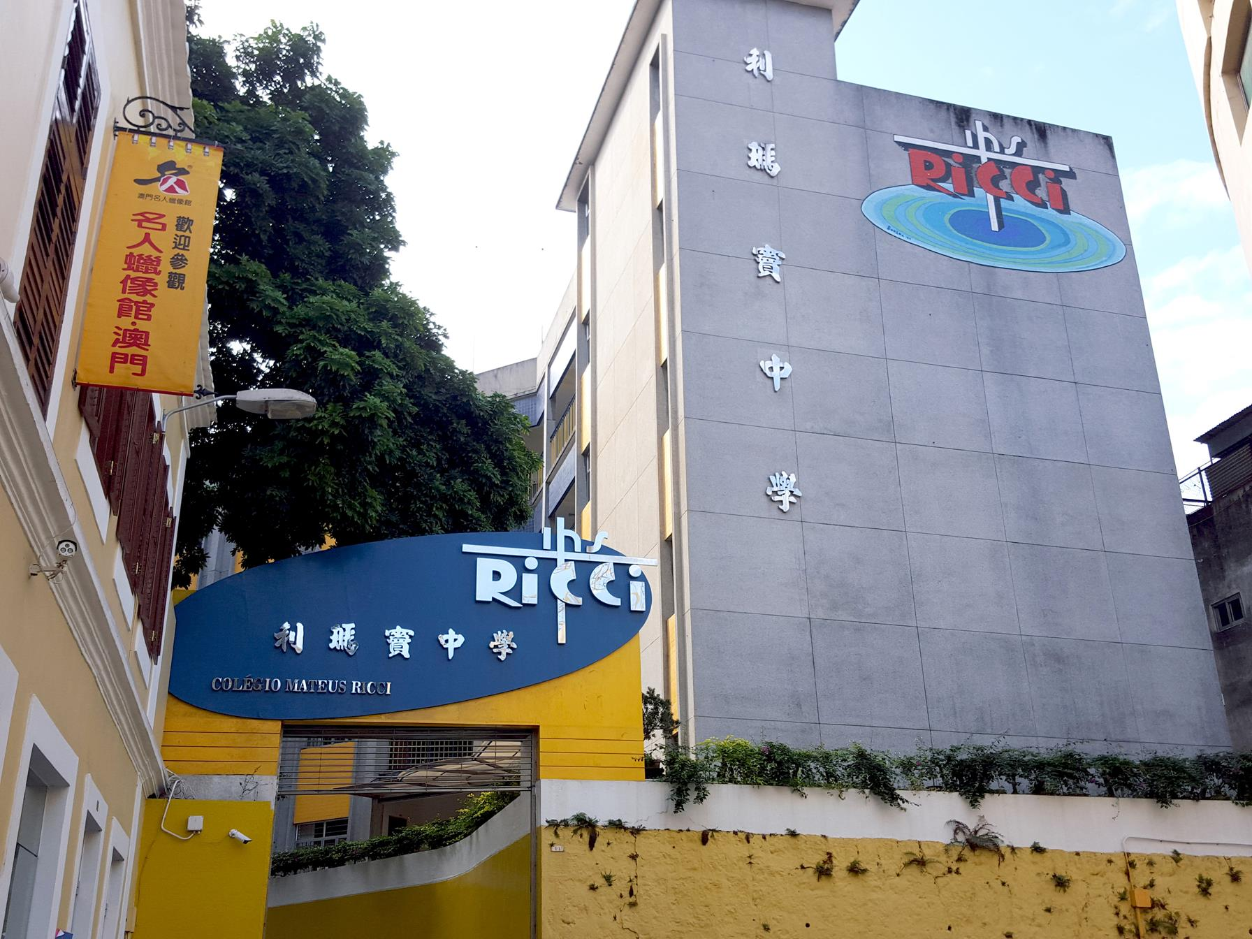 Ricci High School